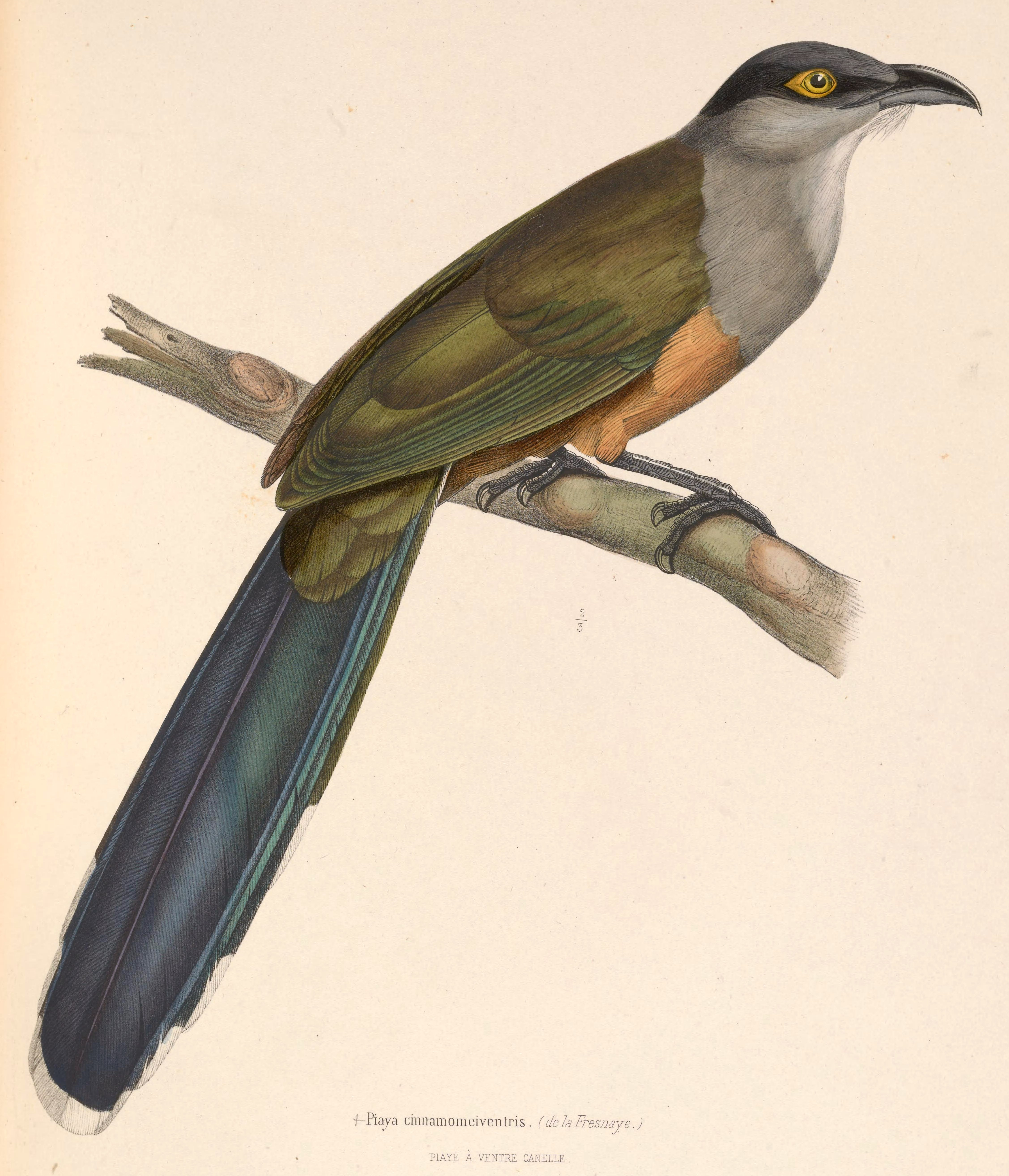 Piaya cinnamomeiventris = Coccyzus pluvialis (Chestnut-bellied Cuckoo)